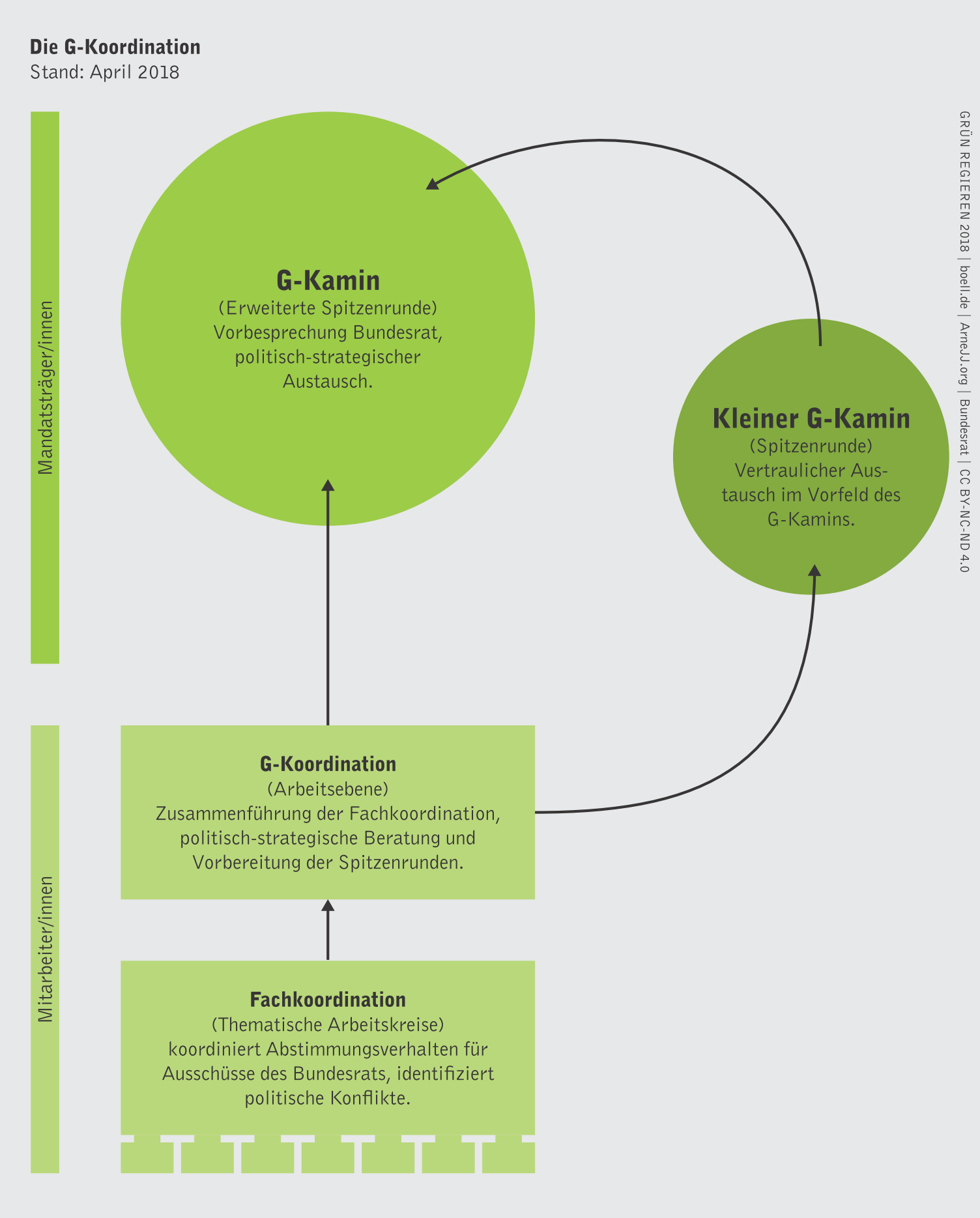 Die Zusammenarbeit der Grünen auf Bundesebene über ihre Funktionen in den jeweiligen Landesregierungen besteht aus Fachkoordination, G-Koordination und zwei Formen von Spitzenrunden. Dem G-Kamin und seiner verkleinerten Ausführung, dem sog. Kleinen G-Kamin